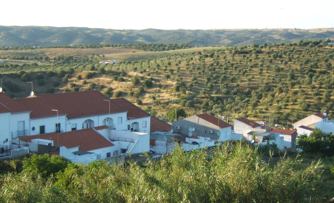 houses in Moura, Portugal, with typical landscape of the Alentejo in the background